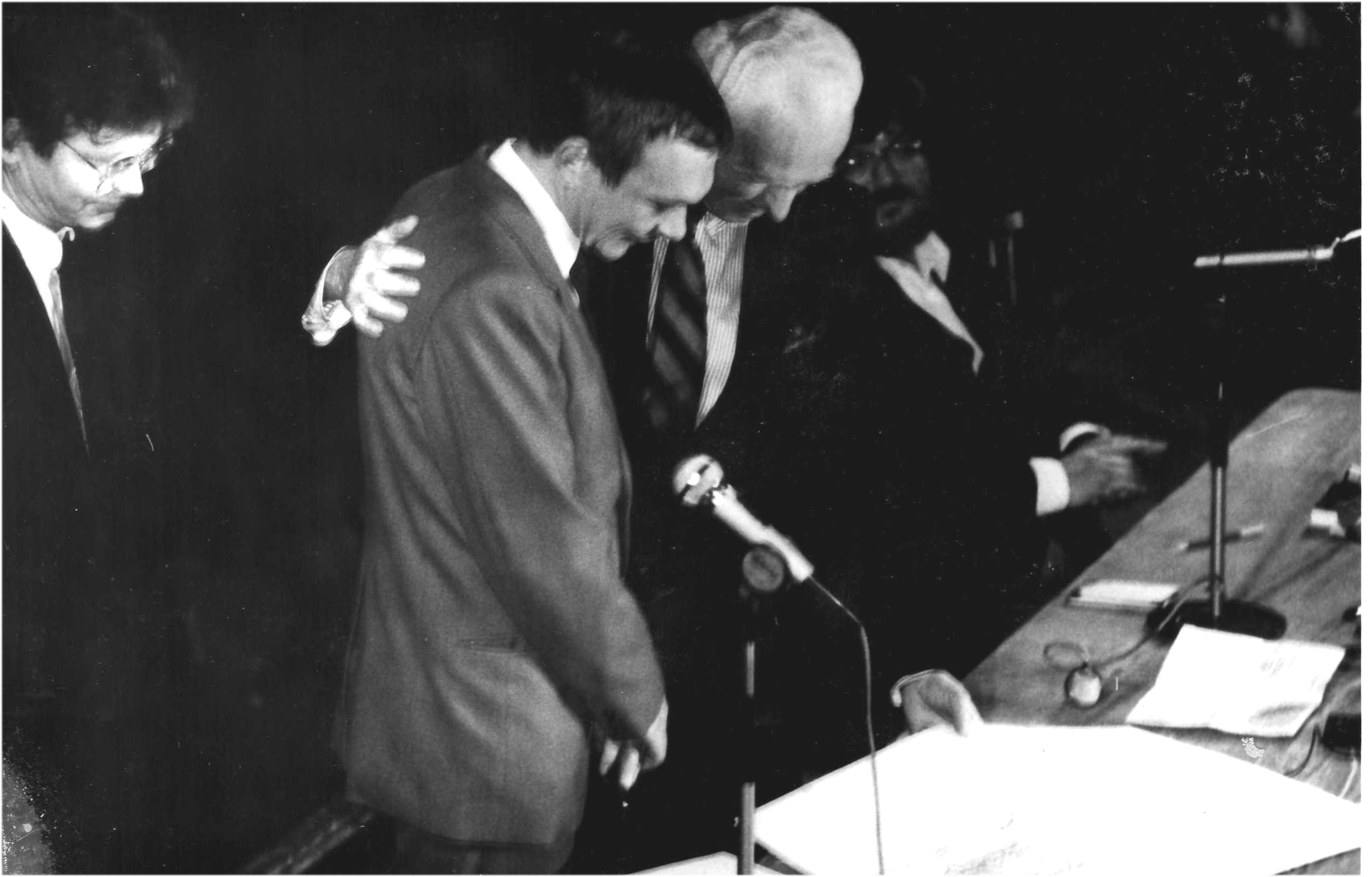 László Hámos, Ernő Borbély, Tom Lantos and Géza Szőcs in 1990 in Cluj-Napoca (from left)